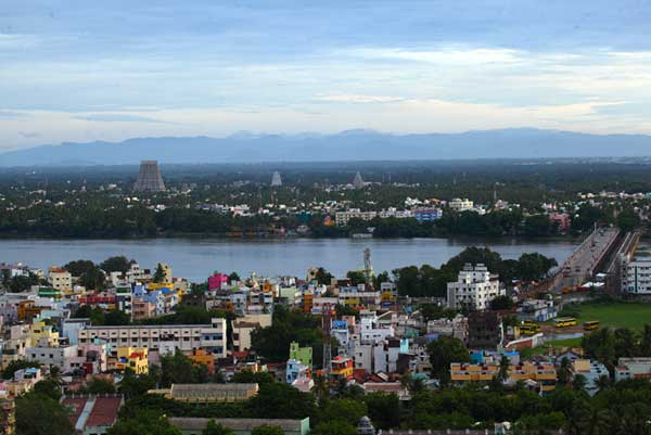 Trichy